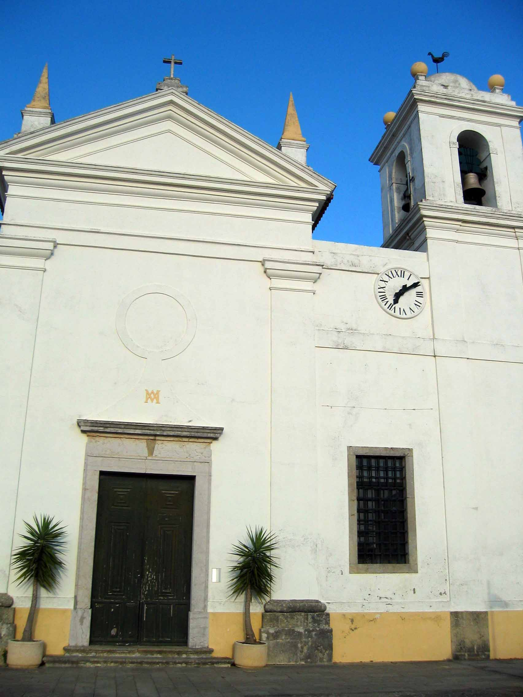 Church of Aljezur - Portugal